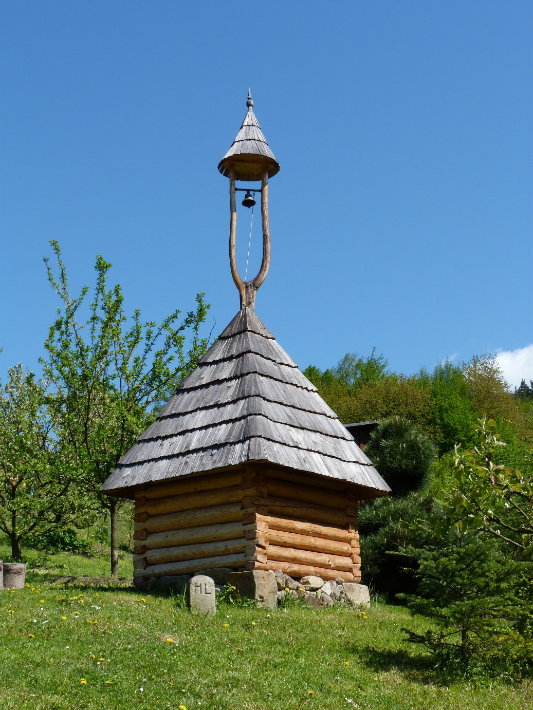 Muzeum